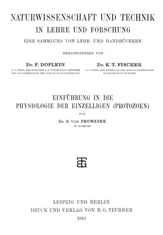 First page of Prowazek's "Einführung in die Physiologie der Einzelligen" retrieved from Internet Archive, [1]